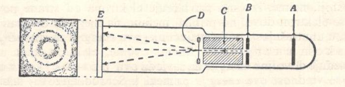 Thomson's experiment